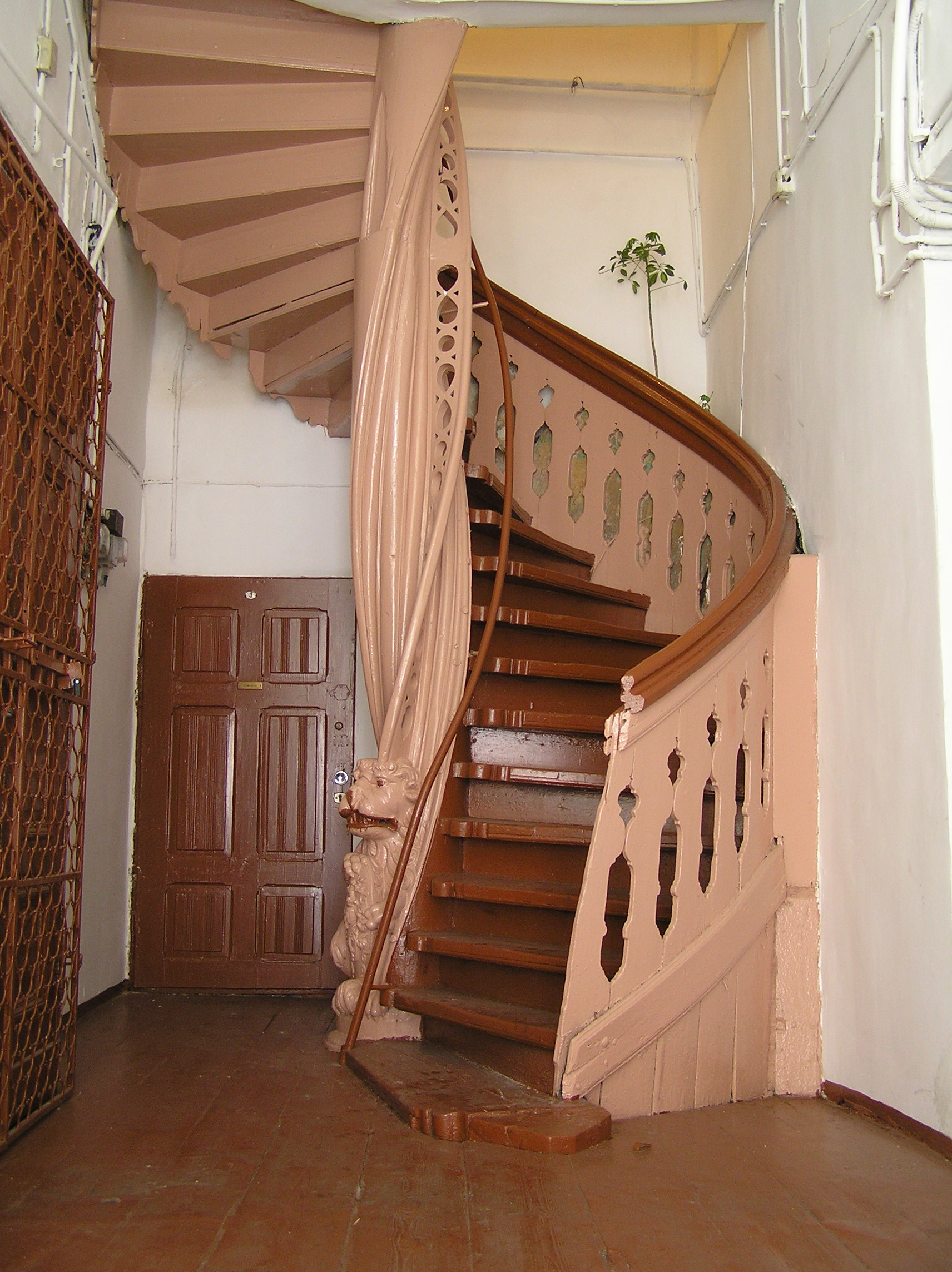 Toruń, House at 6 Mostowa Str., staircase with stairs dating back to 1699